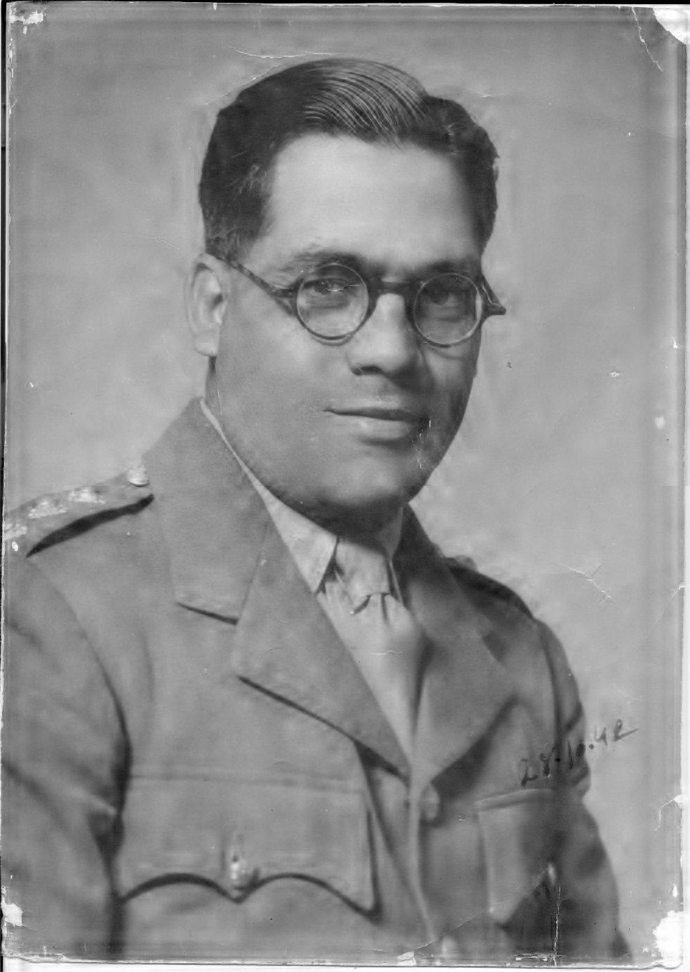 My Father